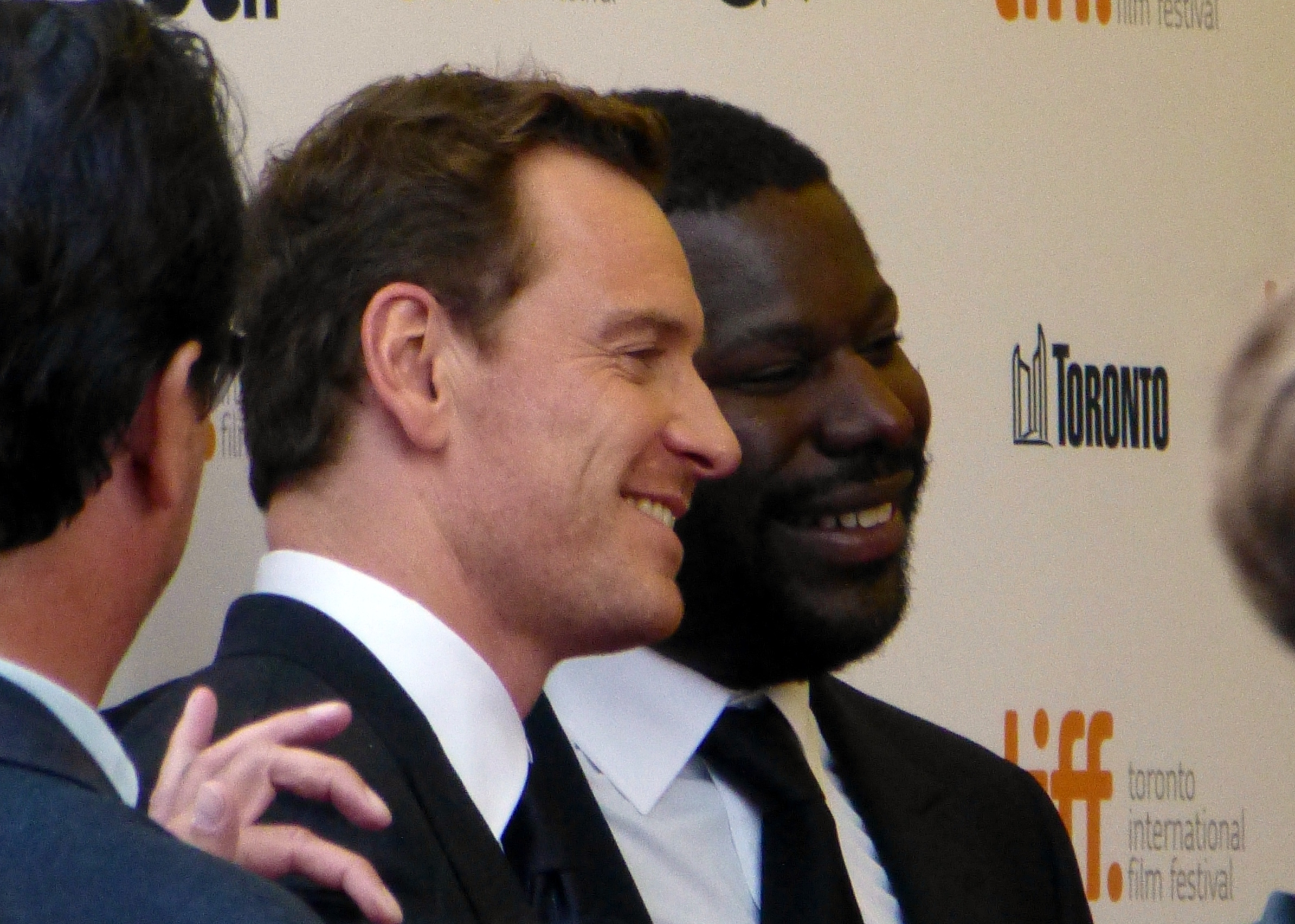 Michael Fassbender and Steve McQueen at the premiere of 12 Years a Slave, 2013 Toronto Film Festival